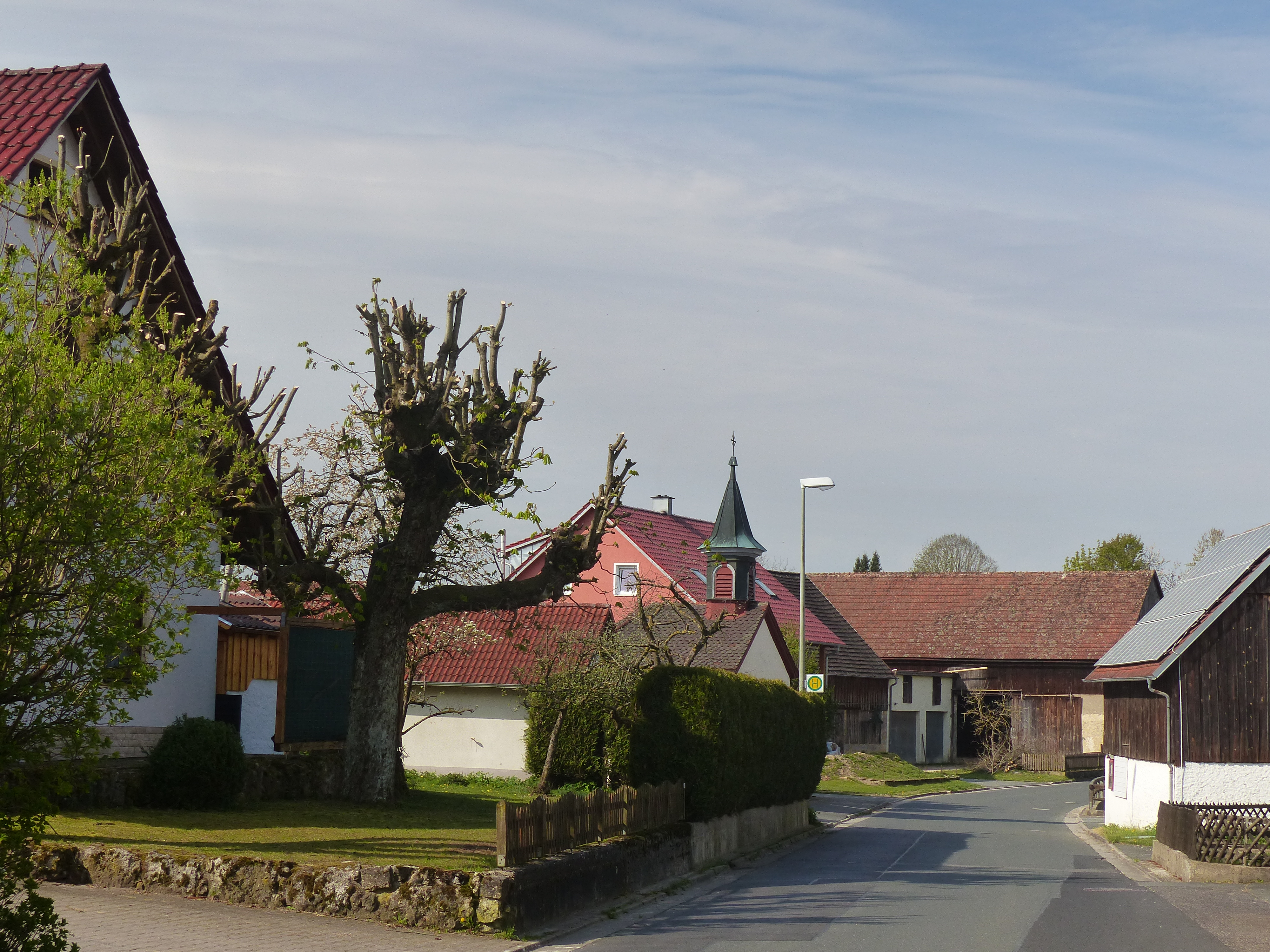 The village Eichenbirkig, a district of the town of Waischenfeld.